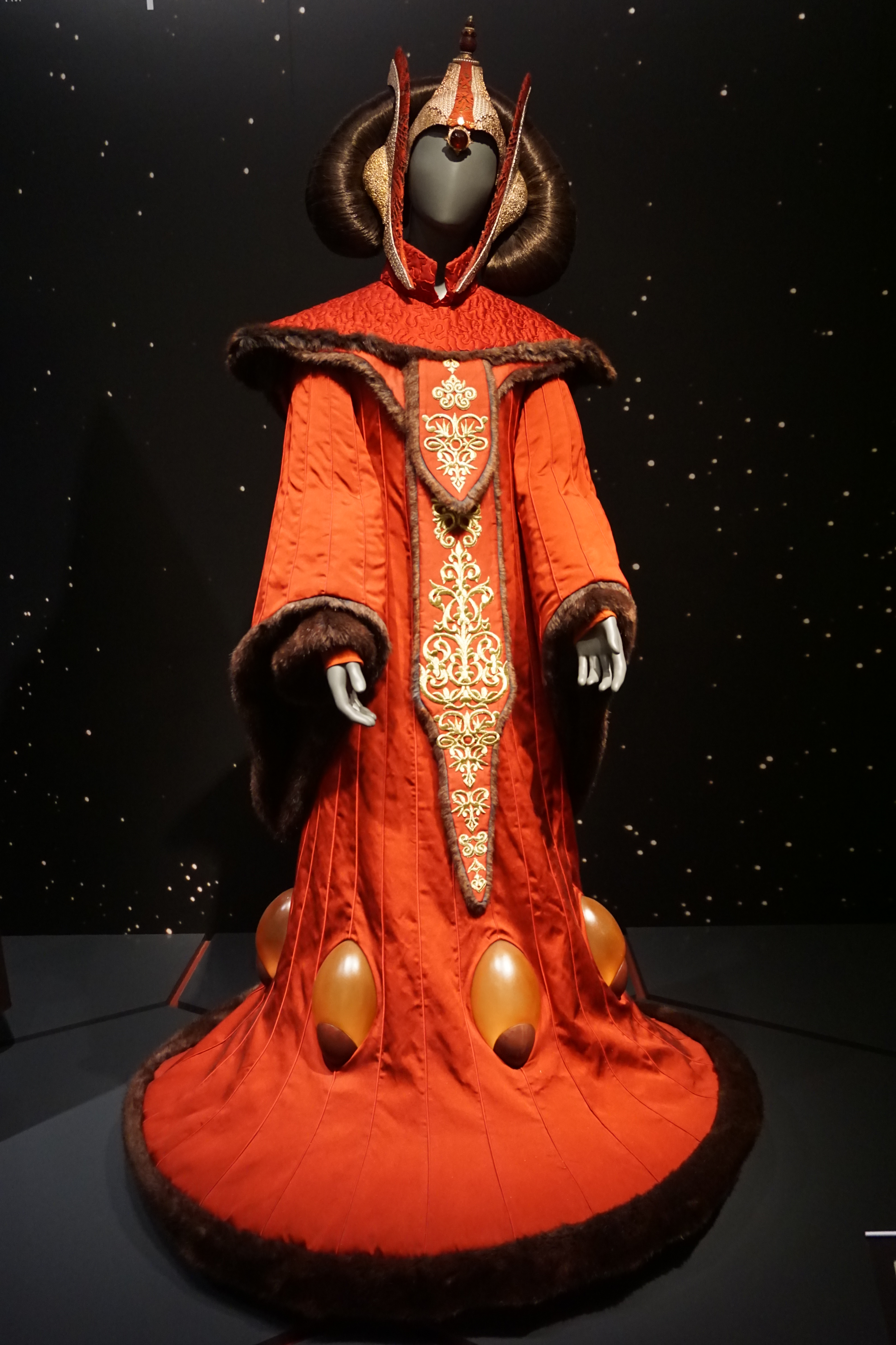 Queen Amidala's throne room gown from Star Wars: Episode I – The Phantom Menace on display at the Star Wars and the Power of Costume traveling exhibit at the Detroit Institute of Arts in Detroit, Michigan (United States).